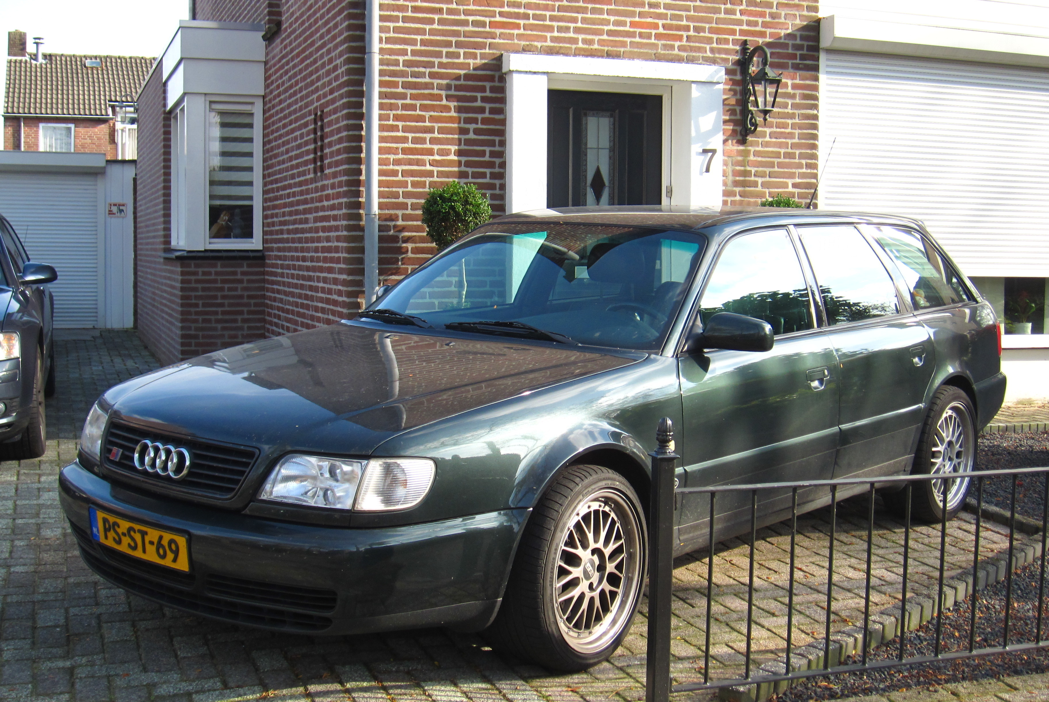 Place: Schijndel Origineel Nederlands.